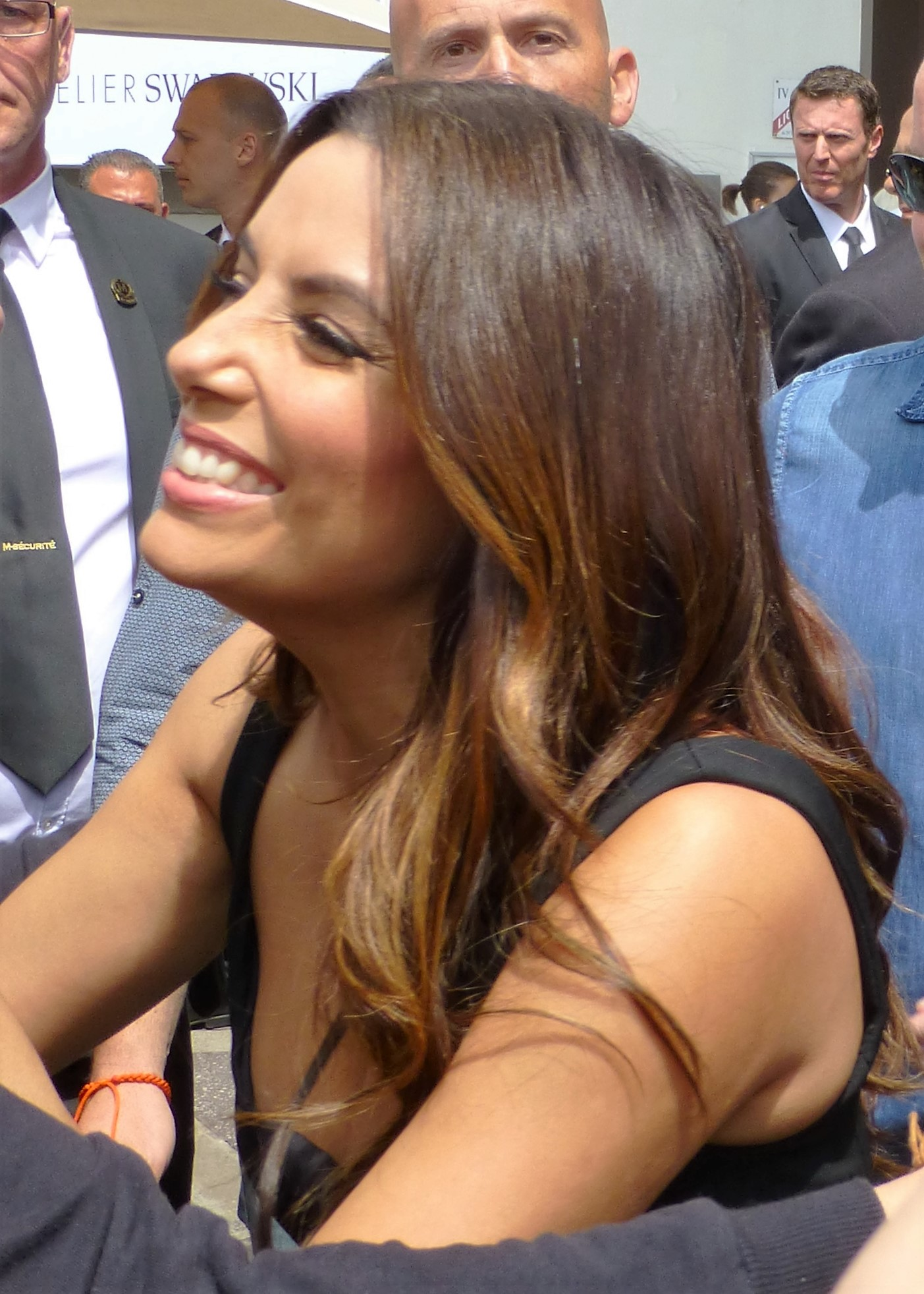 Eva Longoria at the Hotel Martinez